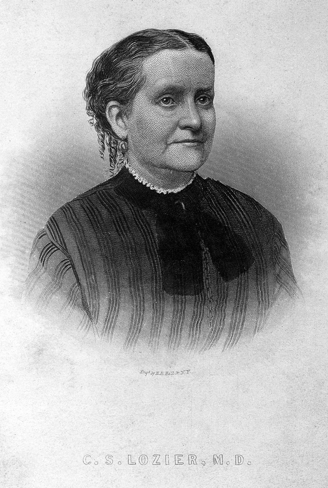 C.S. Lozier, M.D. Wellcome Images Keywords: Clemce Sophia Lozier